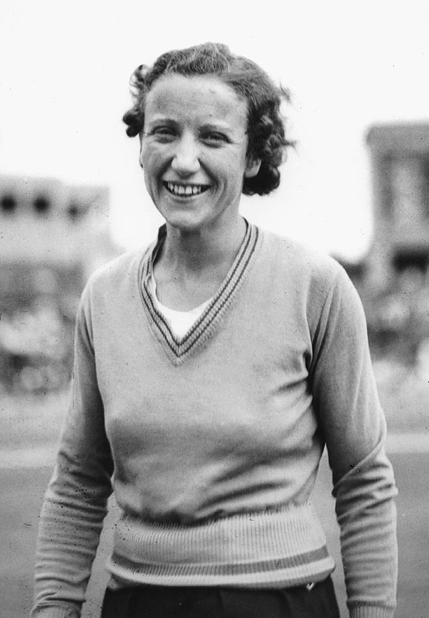 Photograph of Australian athlete Decima Norman at the 1938 British Empire Games in Sydney, Australia